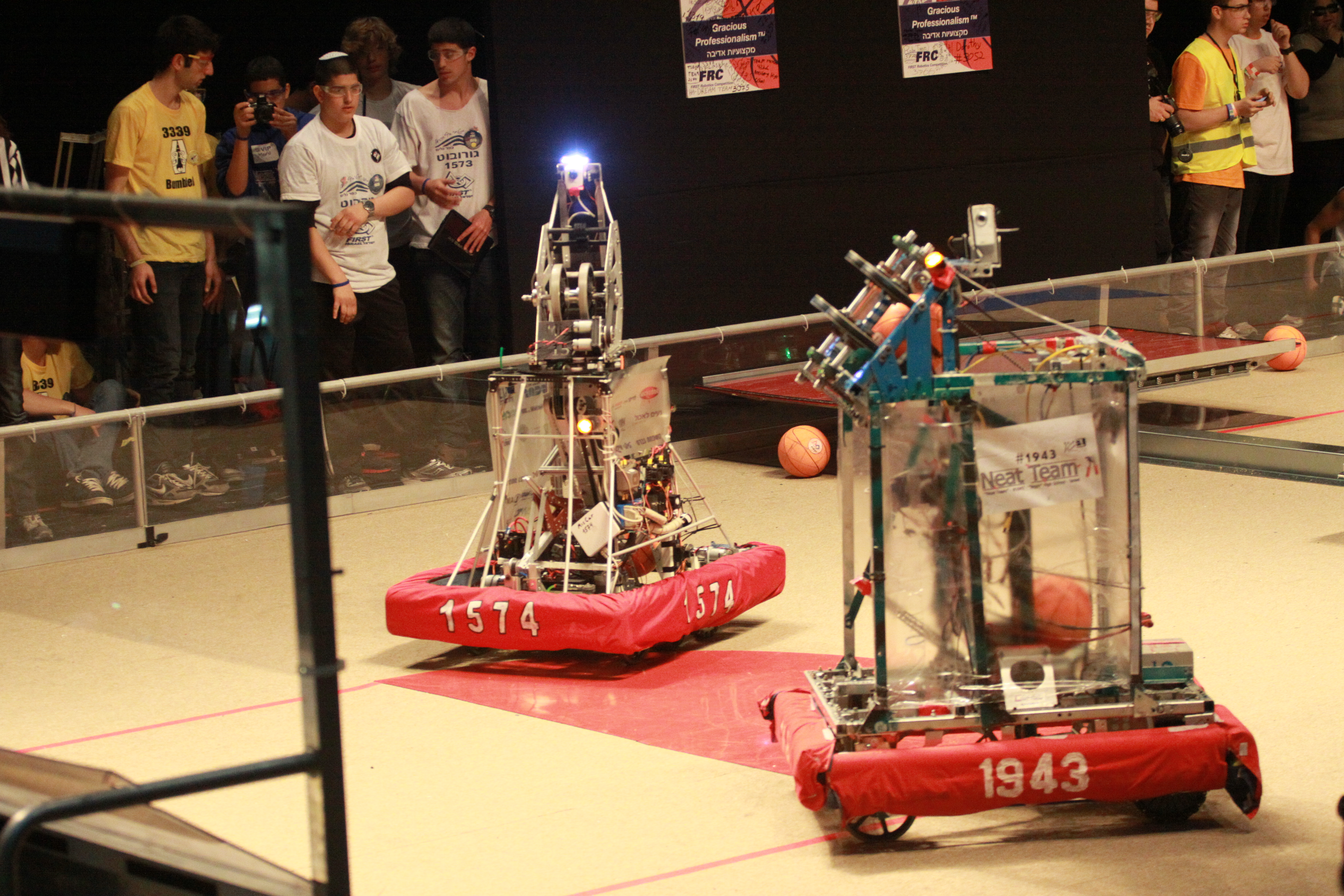 FIRST Robotics Competition, Israel, 2012. Basketball